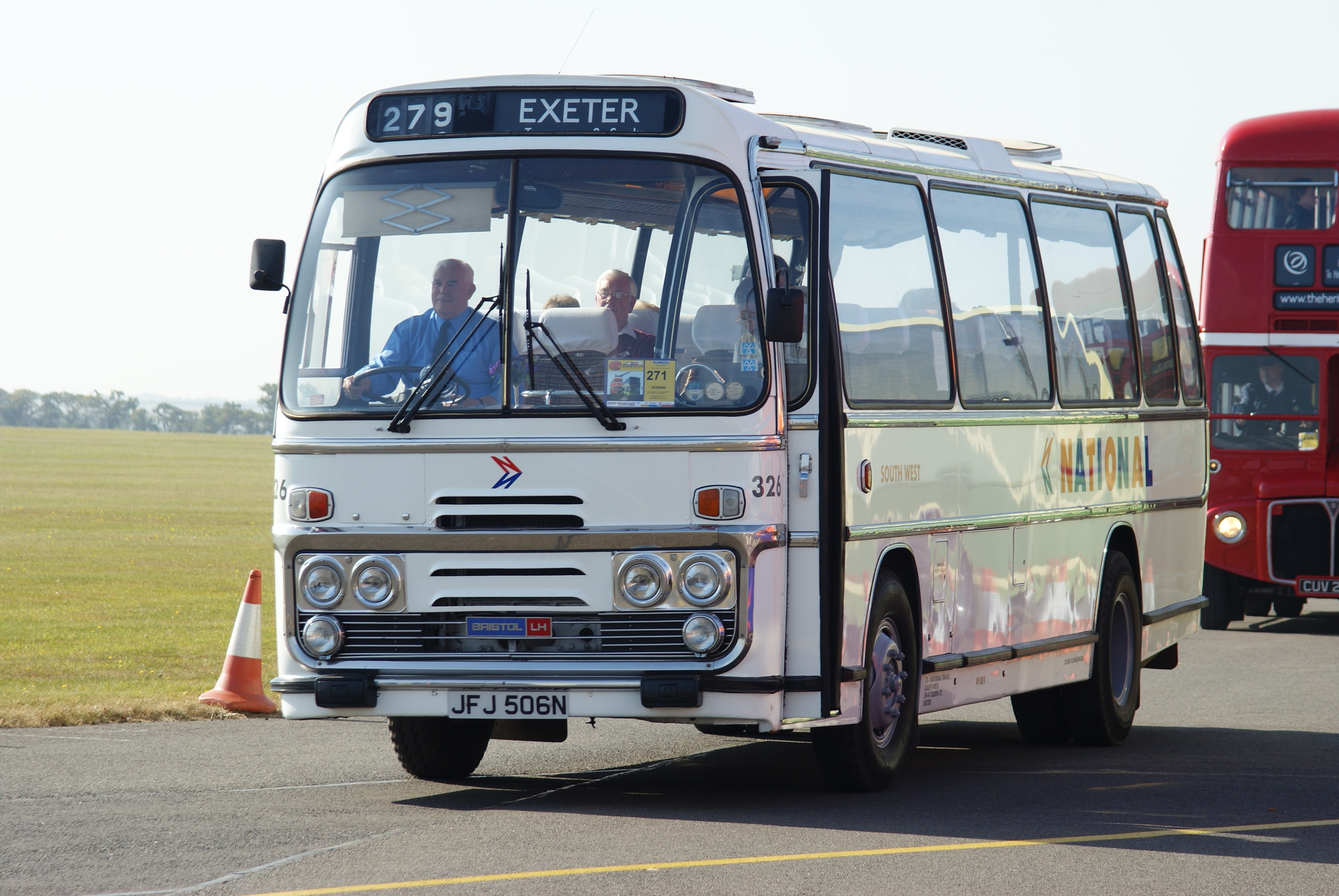 Chassis: Bristol LH6L built 1975; body: Plaxton Panorama Elite III. 7 ft 6 in wide, with Bristol dome. One of a batch of twelve delivered new to National Travel South West (fleet numbers 317-328, registrations JFJ 497-508N); allocated to their Greenslade's subsidiary.